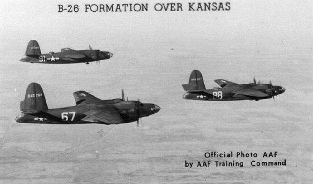 B-26s in formation flying over Dodge City AAF, Kansas